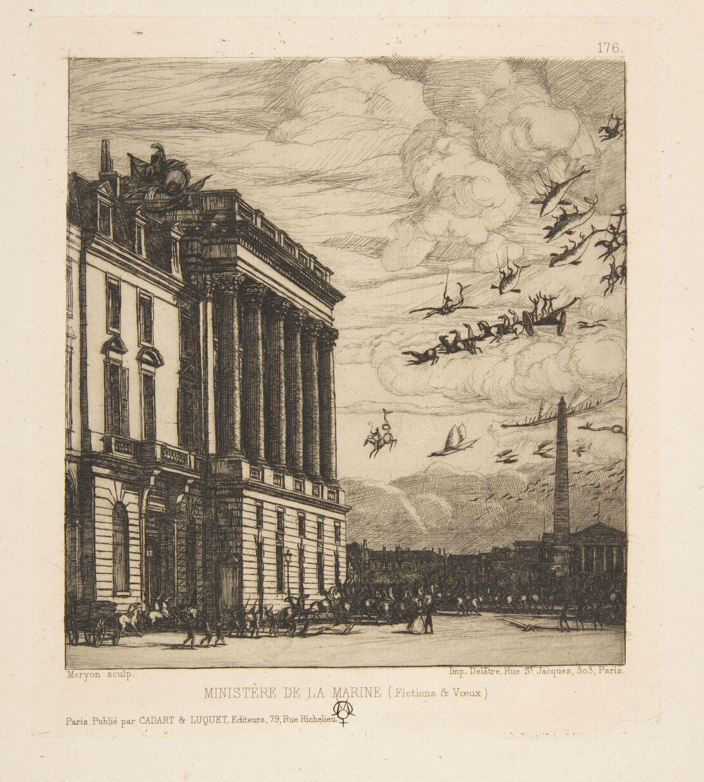 Print; Prints